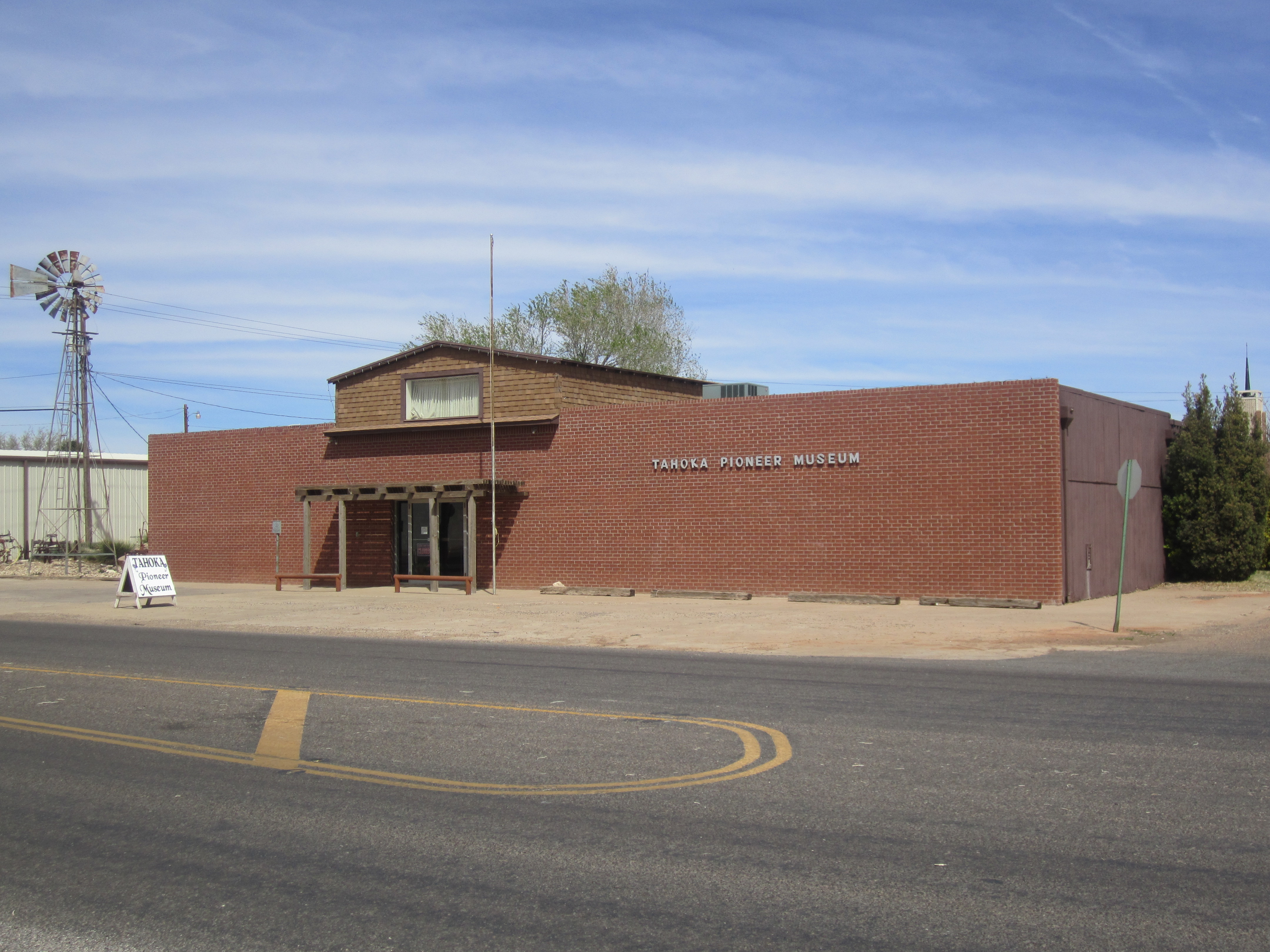 I took photo with Canon camera in Tahoka, TX.